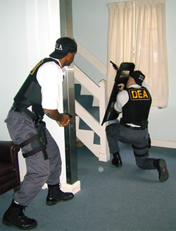 Drug Enforcement Administration special agents